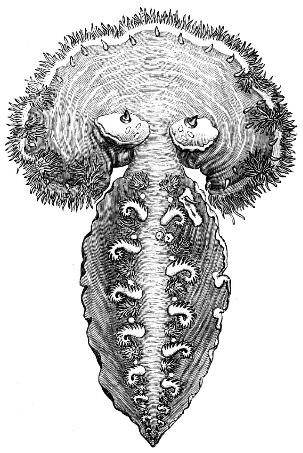 (Tethys fimbria)